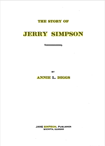 "The Story of Jerry Simpson", by Annie Le Porte Diggs